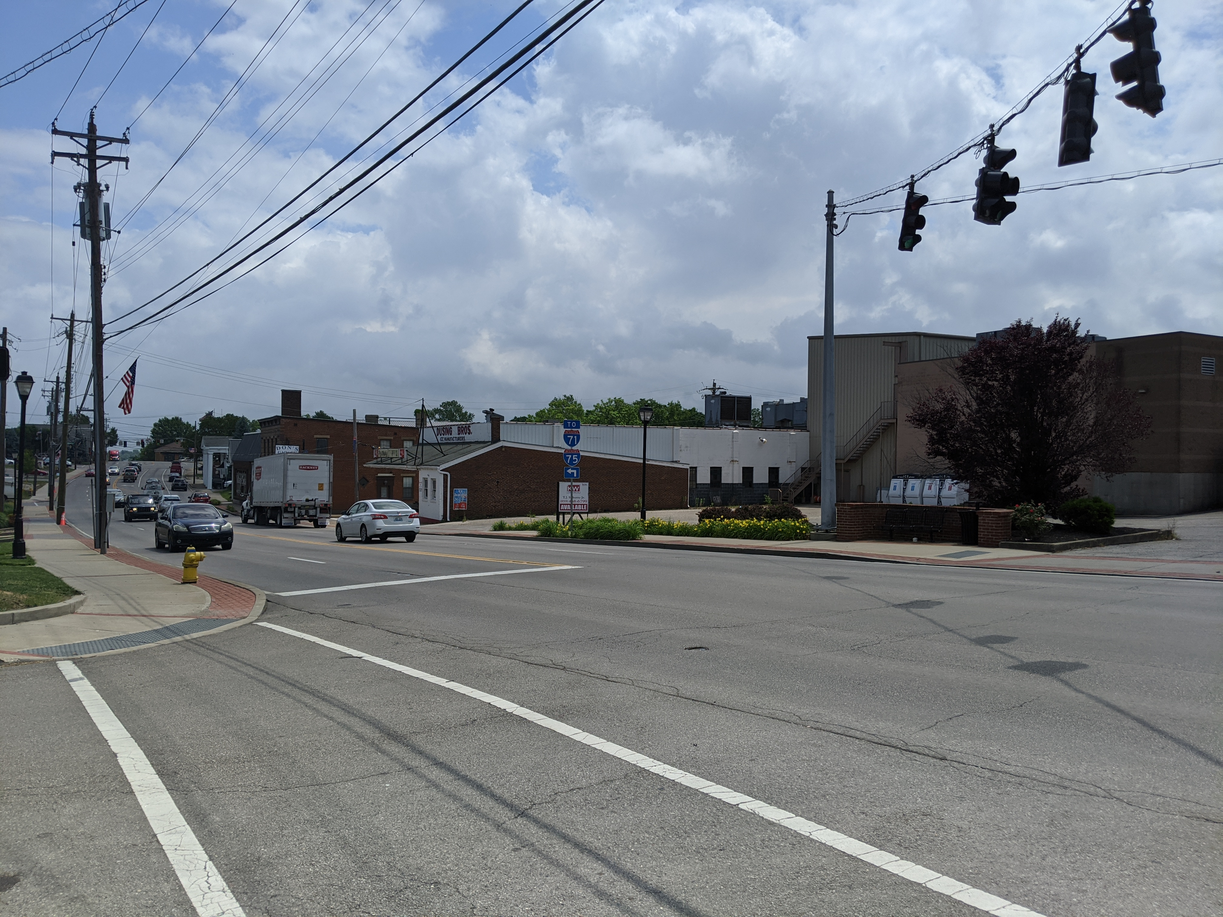 Downtown Erlanger, KY on Dixie Highway